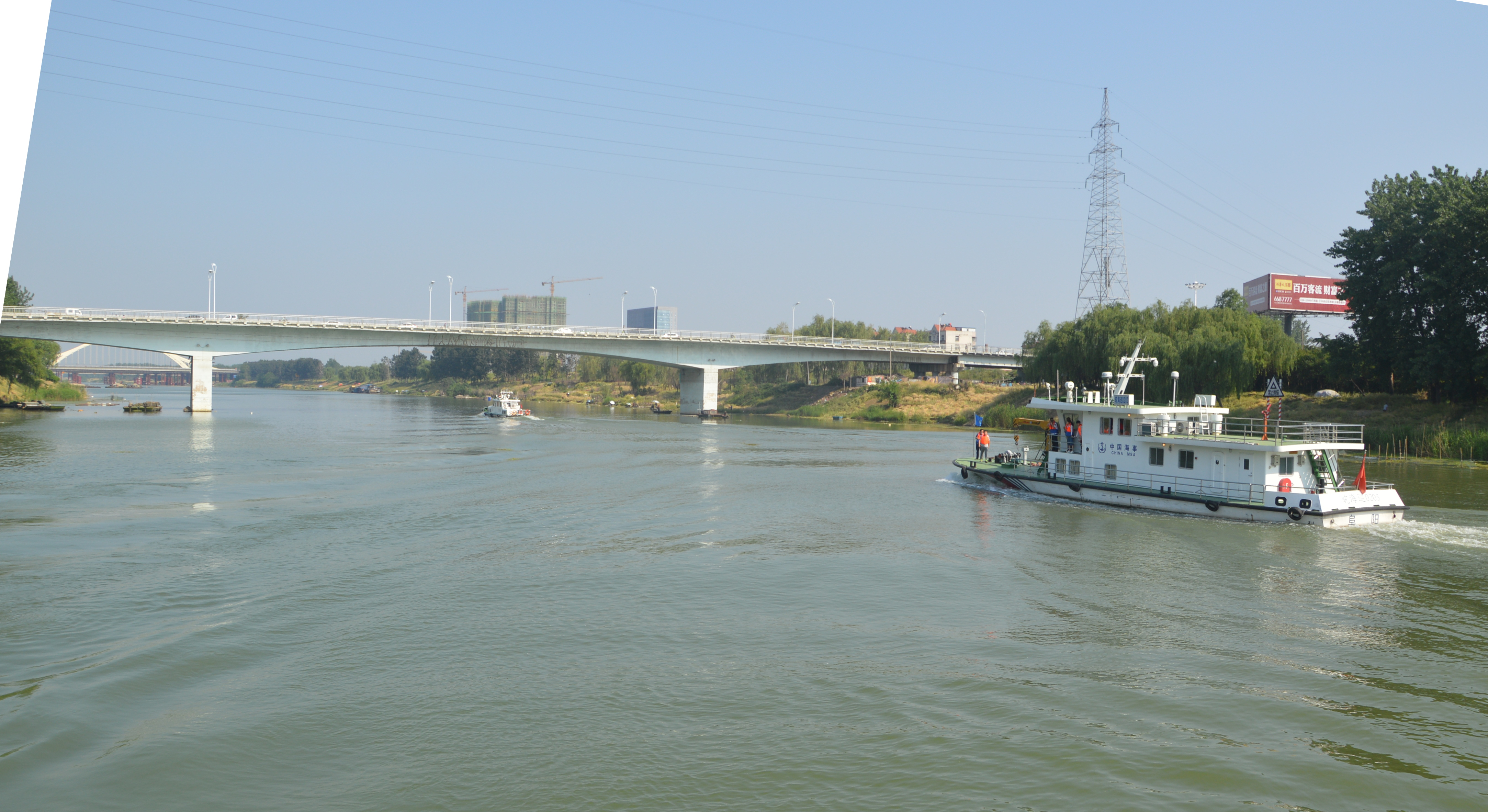 Shaying River near the Fuyu Bridge in Fuyang.